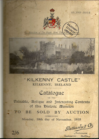 Front page of the auction catalogue for Kilkenny Castle, Kilkenny City, Ireland (November 18, 1935).